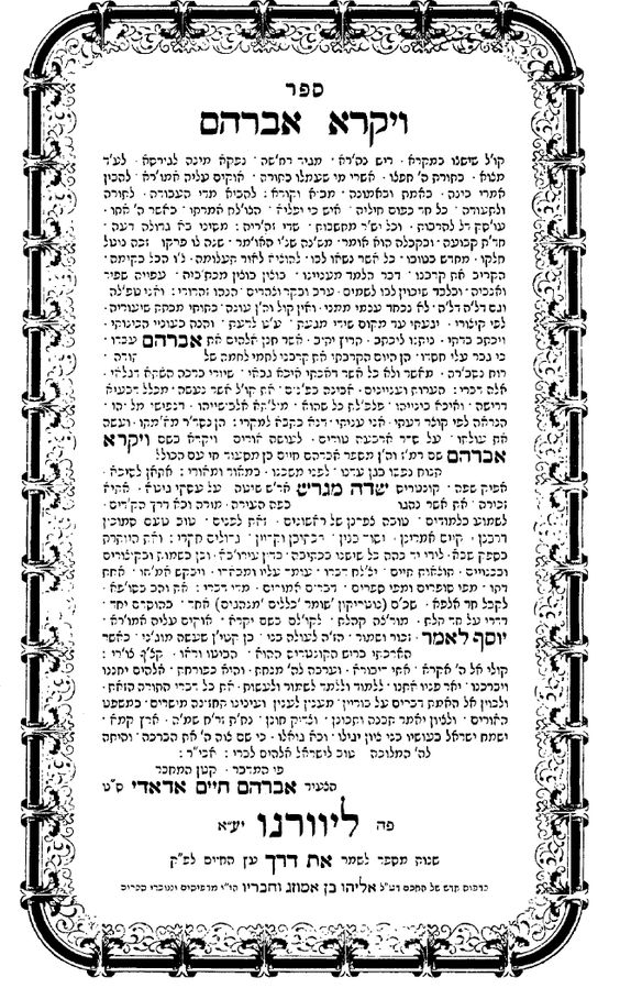 Scan of title page of Vayikra Avraham (1865) by Abraham Hayyim Adadi